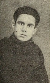 Adelino da Palma Carlos during his student years at the Faculty of Law of the University of Lisbon, c. 1924.